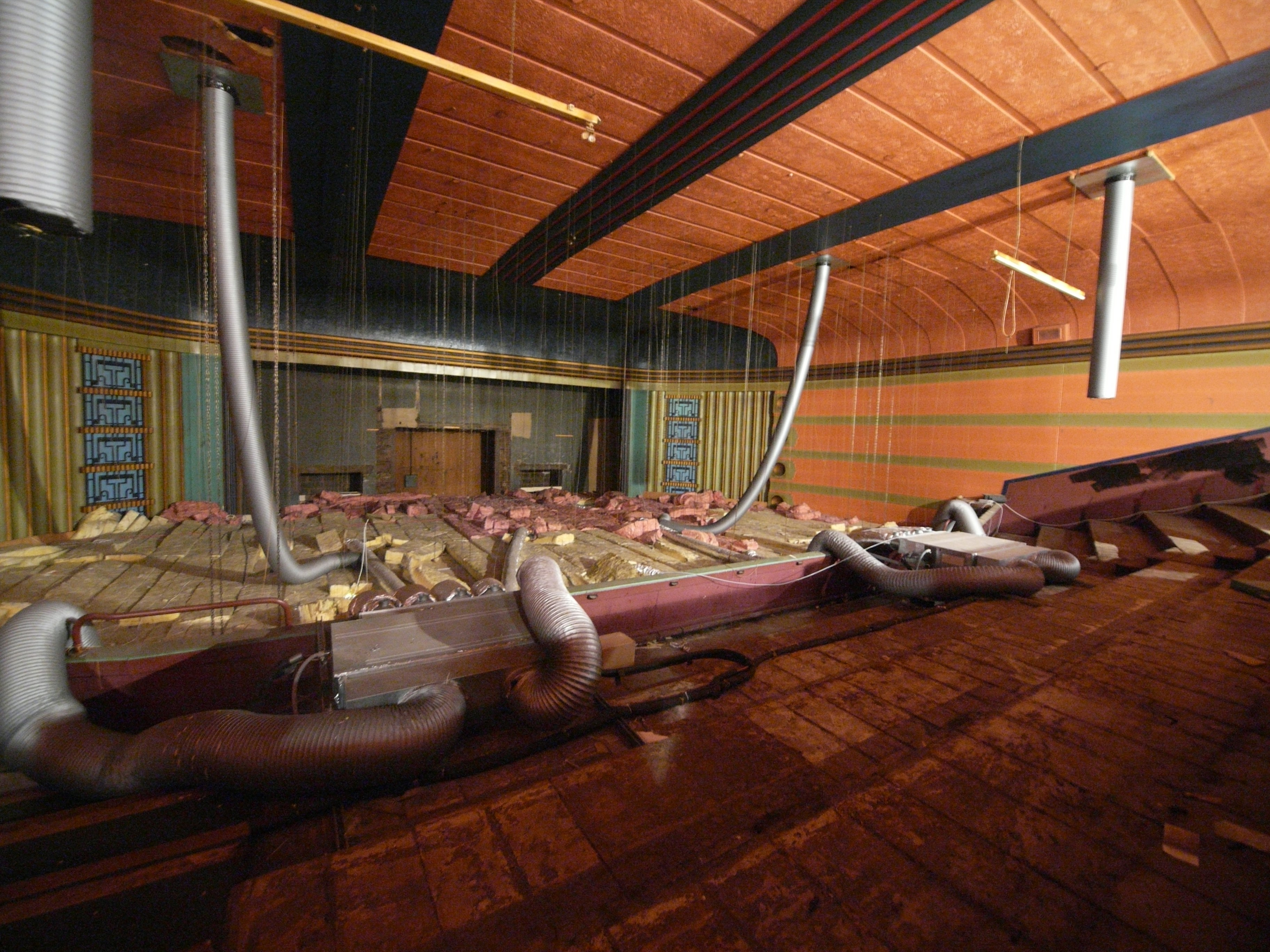 Auditorium of the former George Cinema, Portobello, Edinburgh.